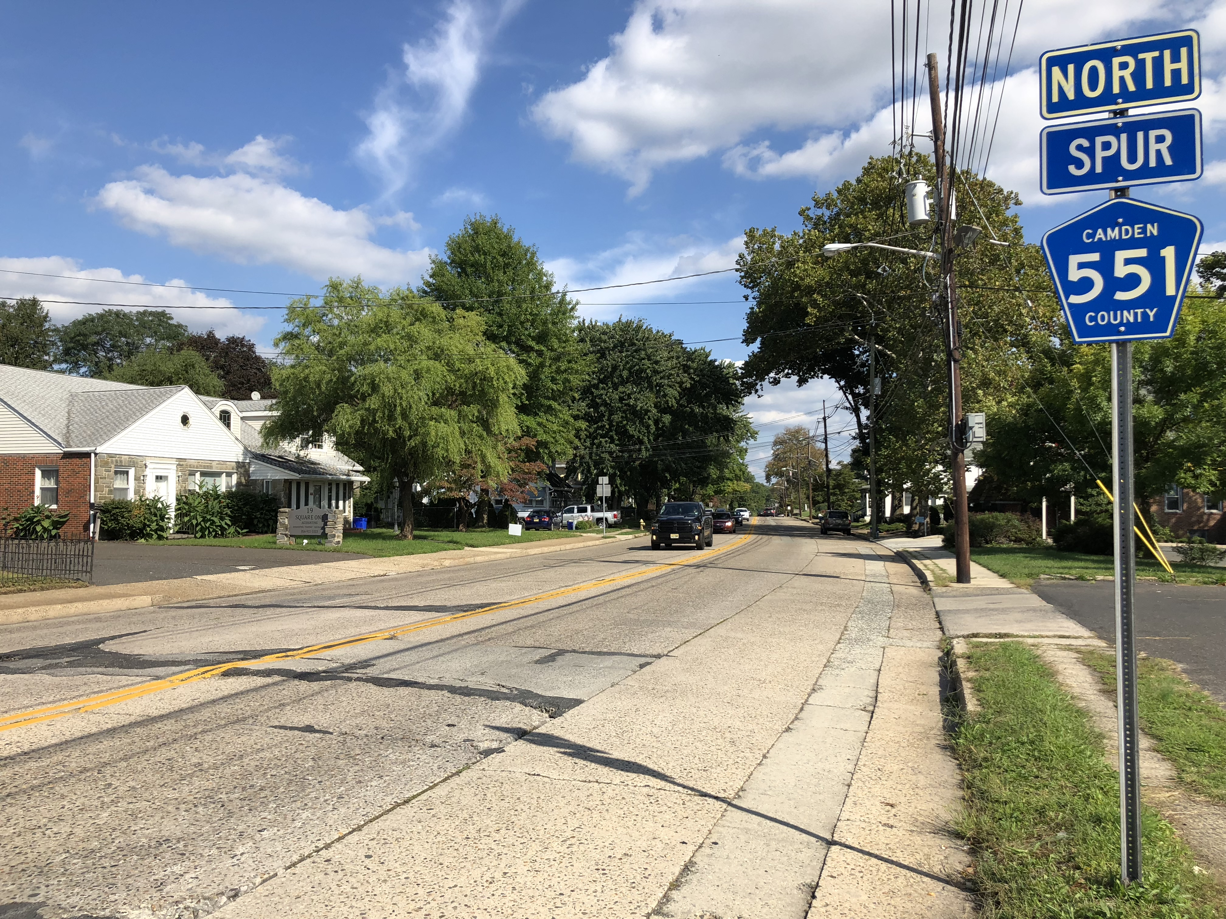 View north along Camden County Route 551 Spur (Kings Highway) just north of New Jersey State Route 168 (Black Horse Pike) in Mount Ephraim, Camden County, New Jersey